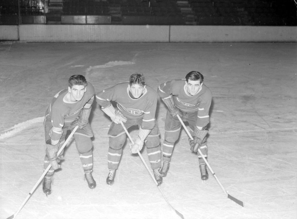 Hockey players of the Montreal Canadiens Maurice Richard, Elmer Lach and Tony Demers on the ice of the Forum.